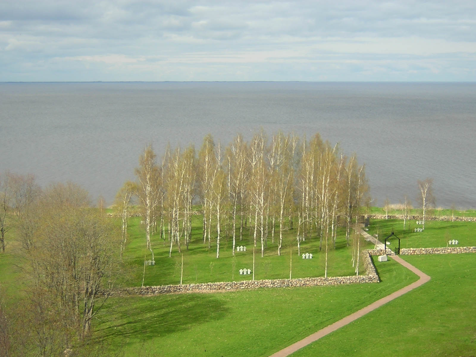 German military cemetery in Korostyn (Shimsk district Novgorod oblast)